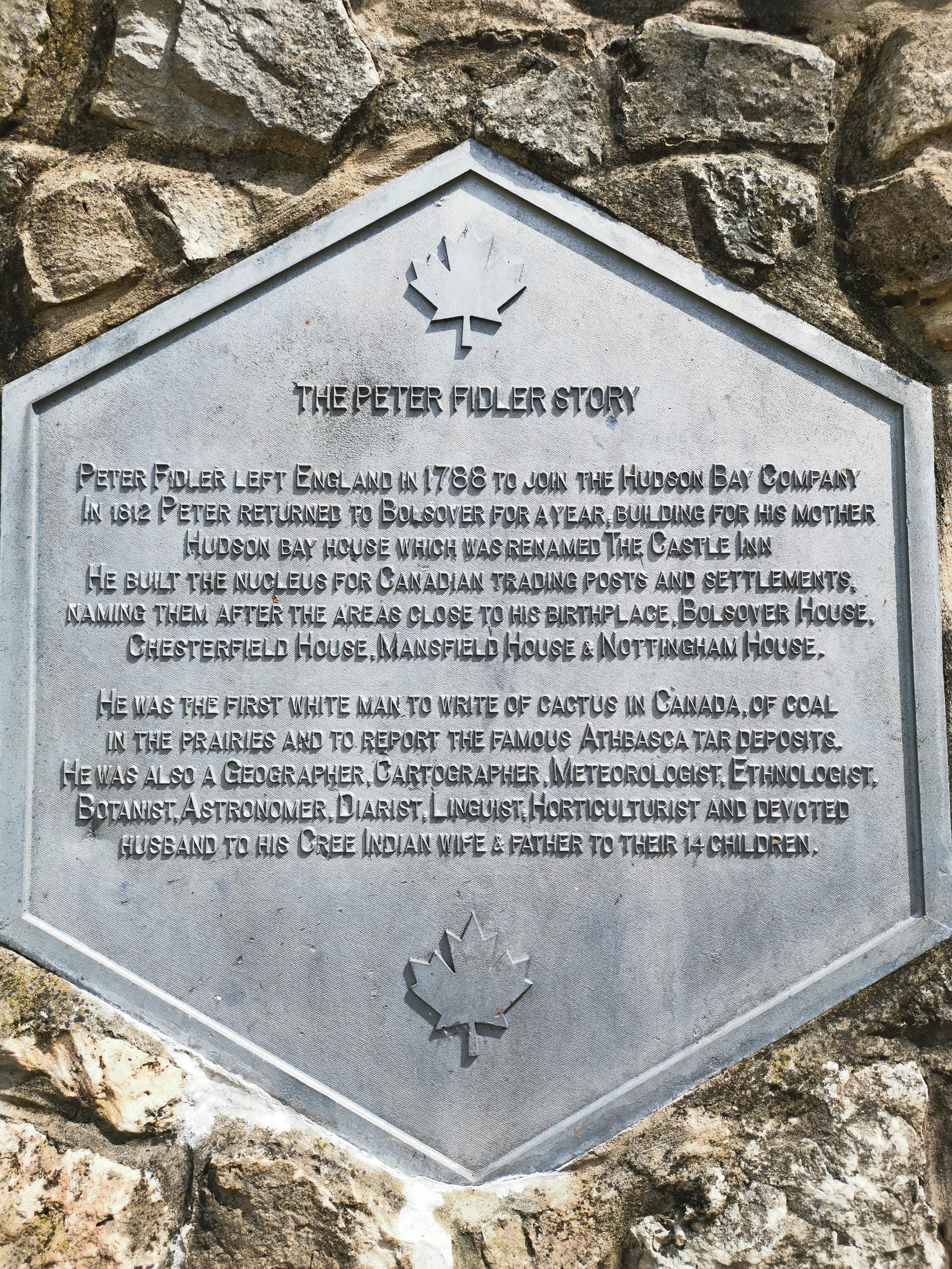 A plaque, summarising the life of Peter Fidler